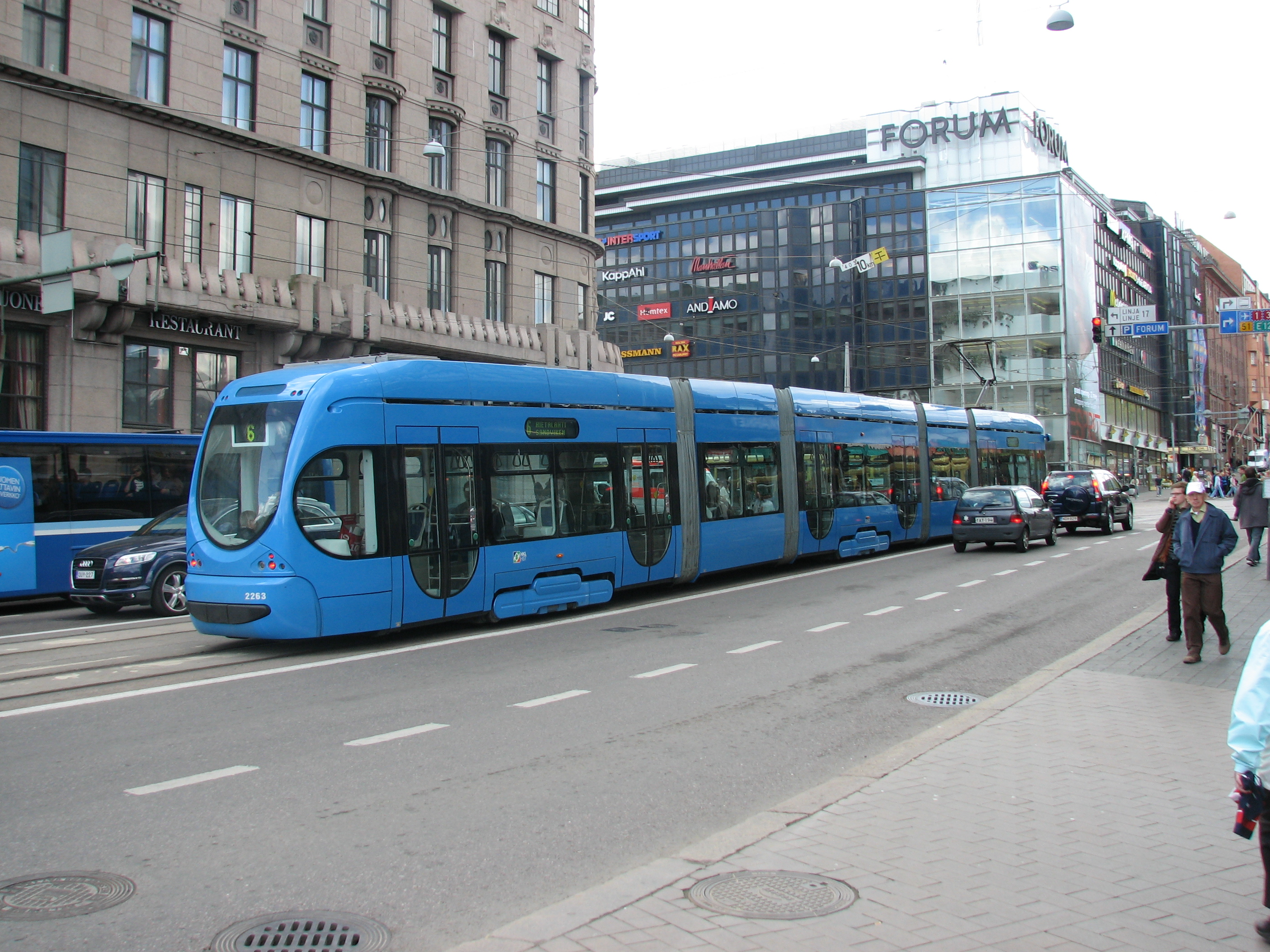 A CROTRAM TMK 2200 - type tram (#2263) in test use in Helsinki, Finland, on line 6: Arabianranta-Hietalahti. This tram was on loan from Zagrebački električni tramvaj (ZET), and run in Helsinki in ZET colours, displaying its original ZET tram number.